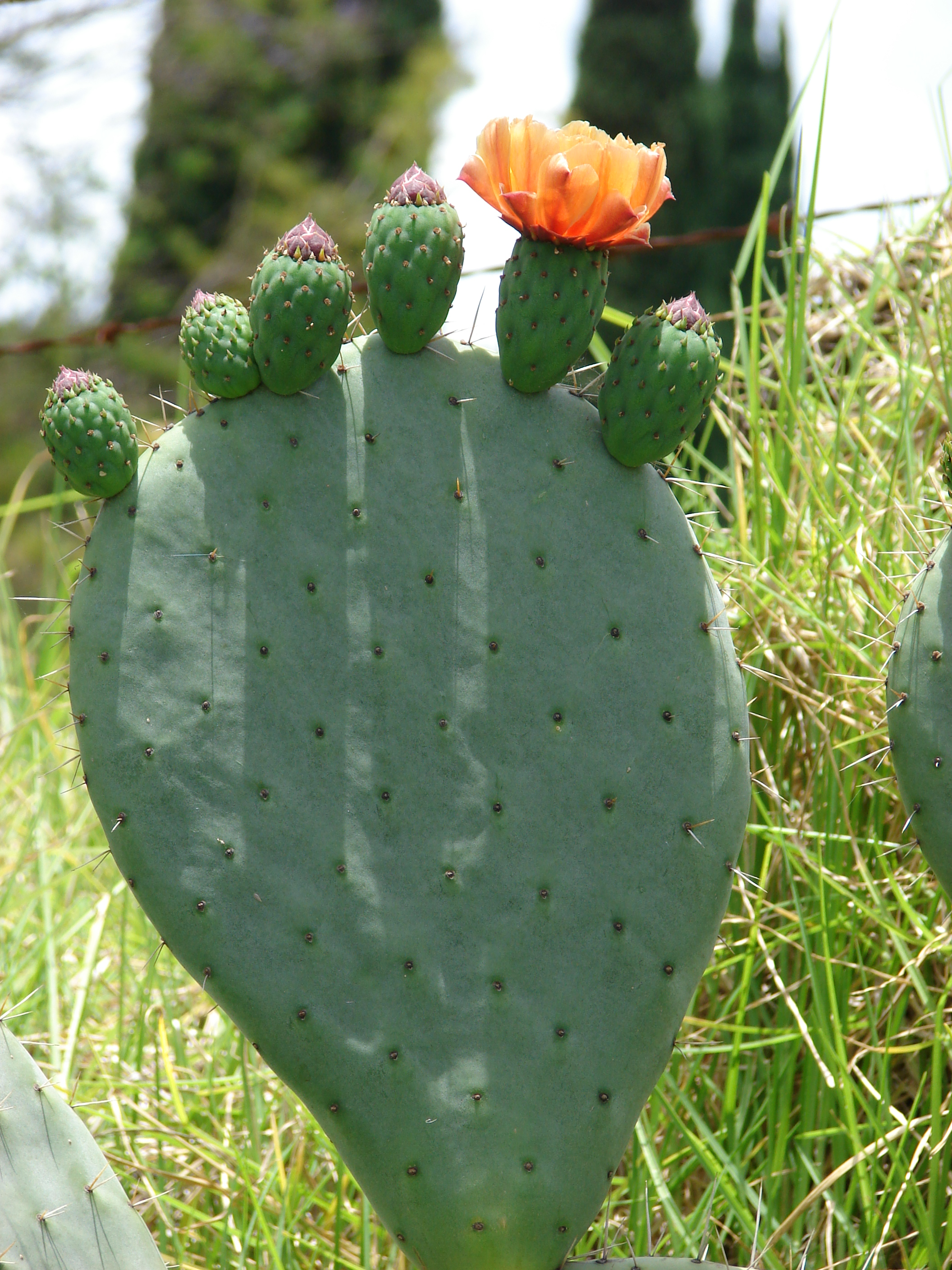 starr-090519-8035-plant Opuntia lasiacantha flower Kula